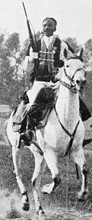 Old photo of a Libyan Savari done with my digital camera.From a 1938 school history book.